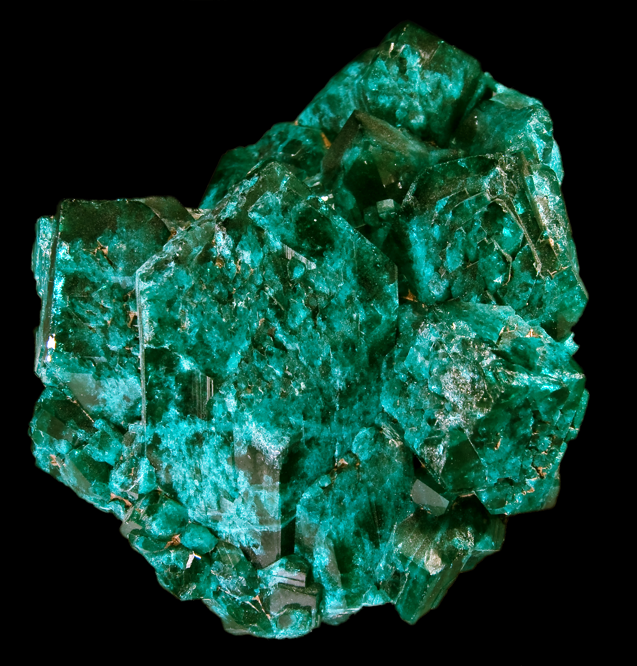 Dioptase - Renéville; Djoué, Brazzaville Region (Renéville Region), Republic of Congo (Brazzaville) (4.3x4.3cm)